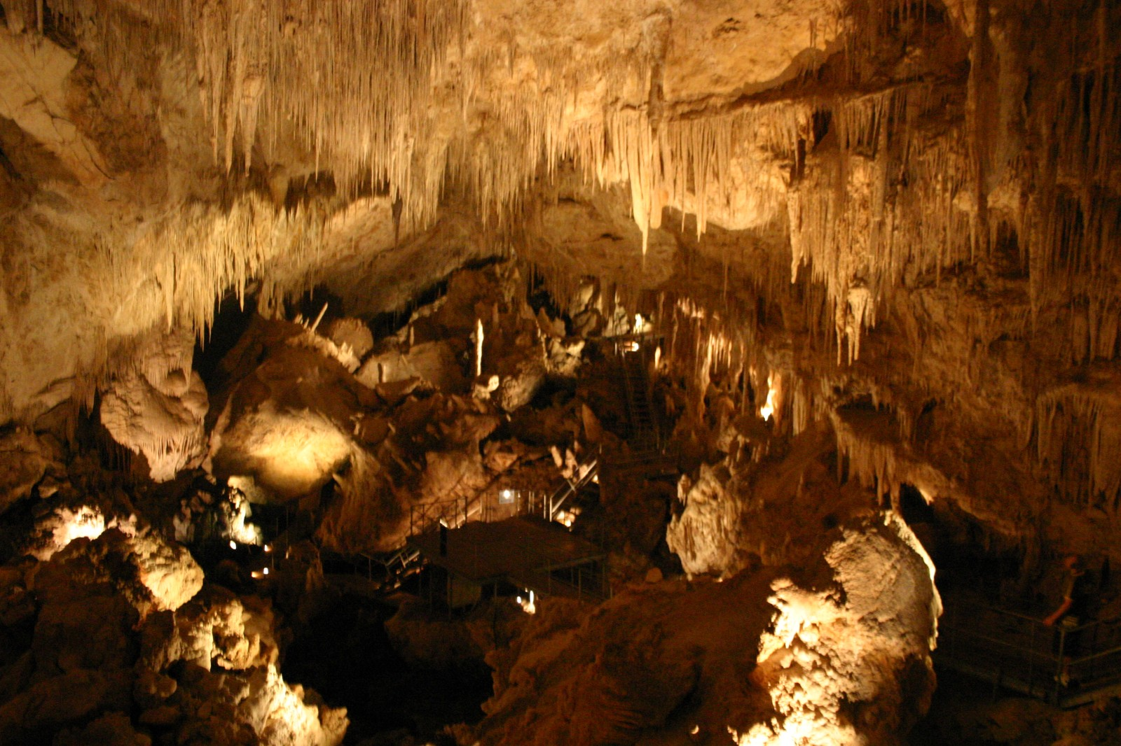 I took this photograph in March 2006. Takver ( It is Released under GNU FDL.